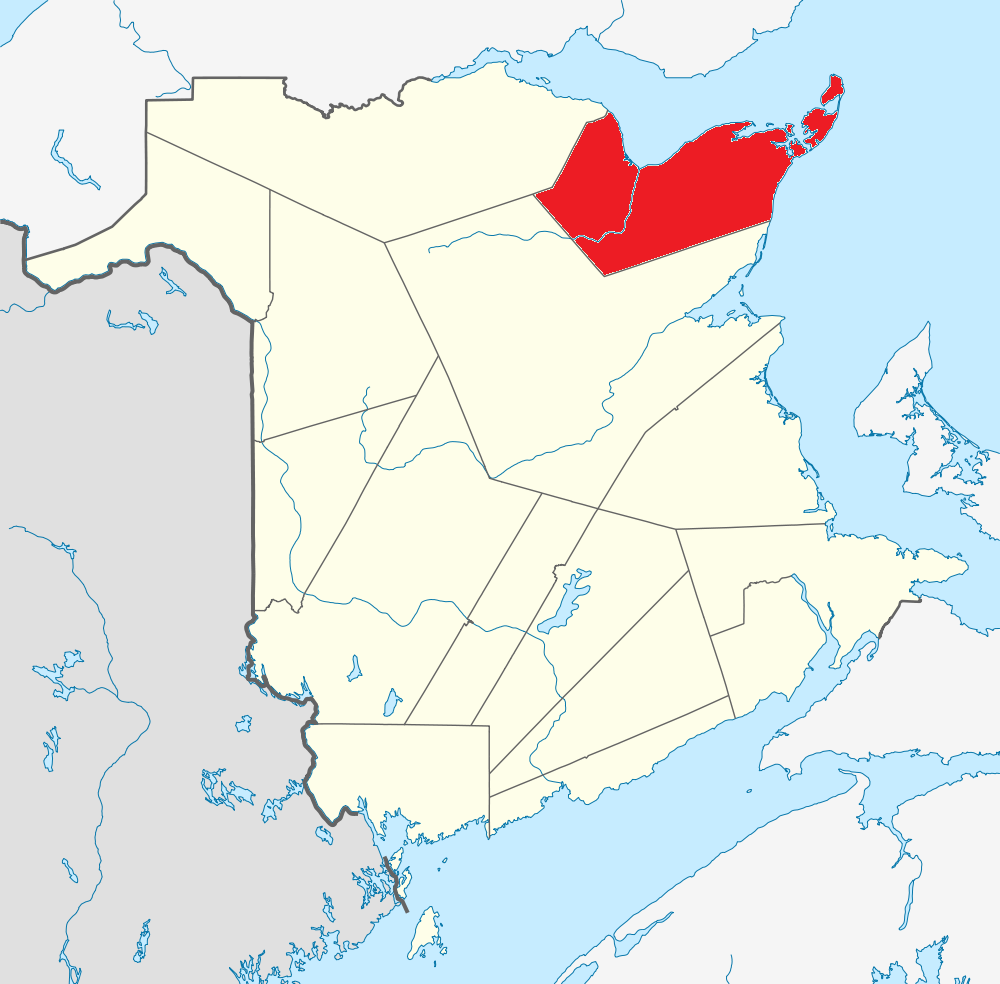 Map of New Brunswick highlighting Gloucester County